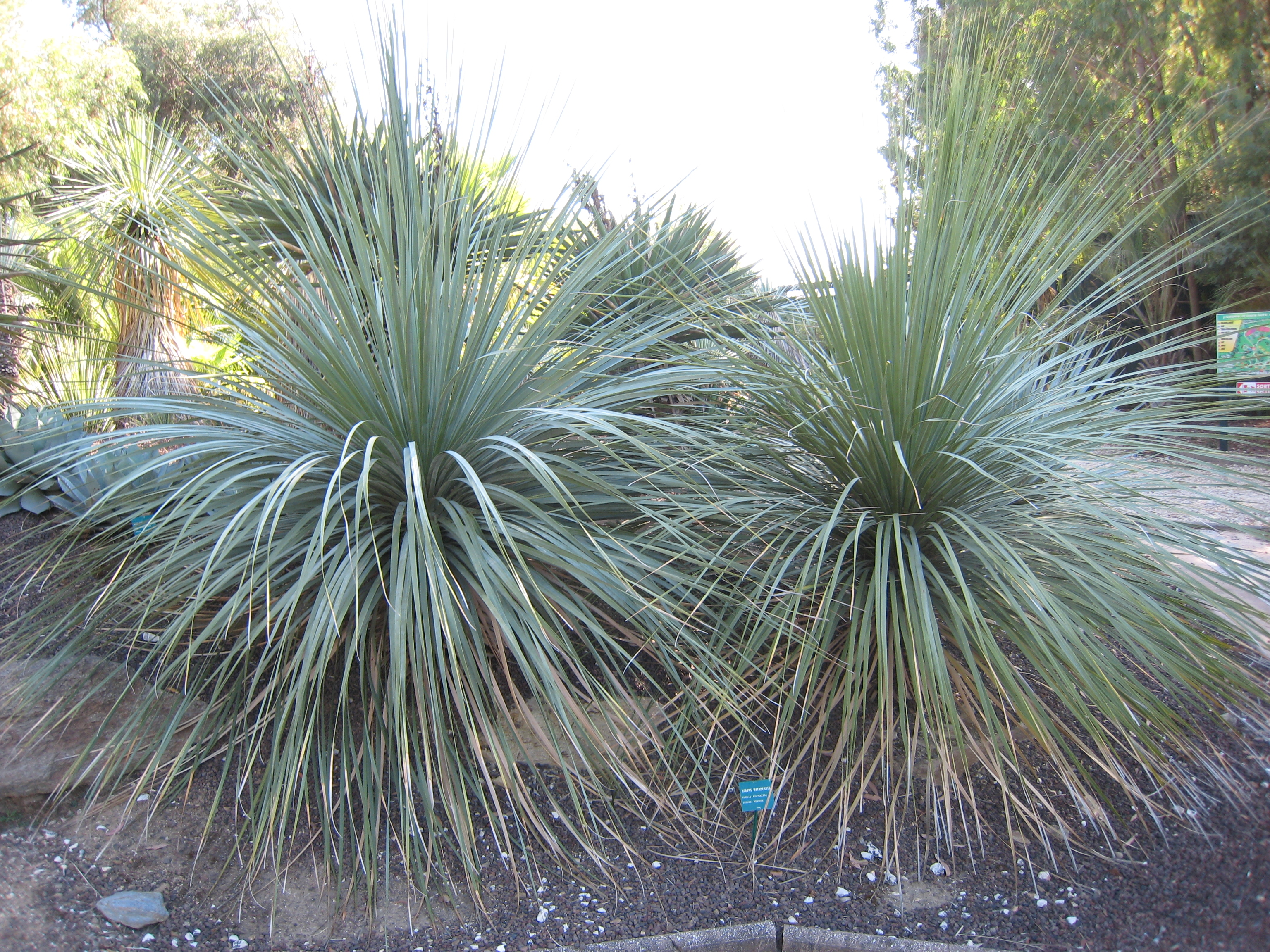 Nolina matapensis in jardin d'oiseaux tropicaux